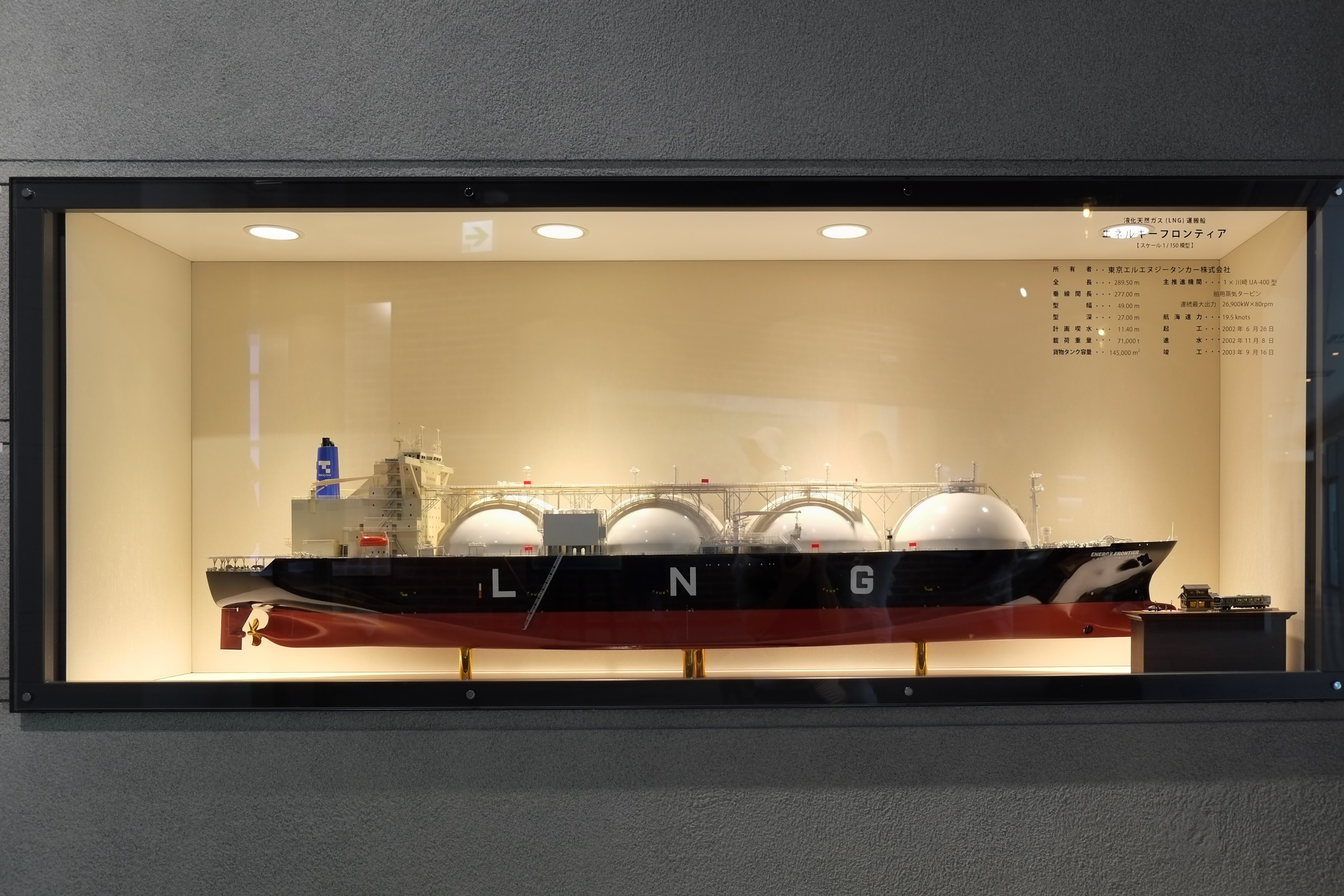 A model of the LNG carrier Energy Frontier